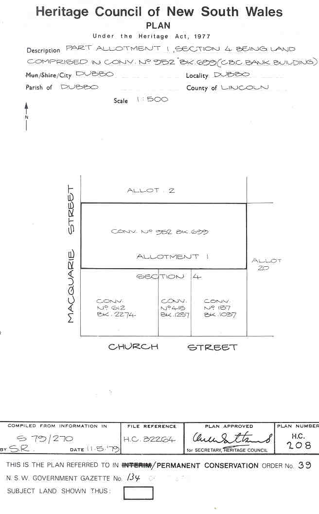 National Australia Bank building, Dubbo: PCO Plan Number 039